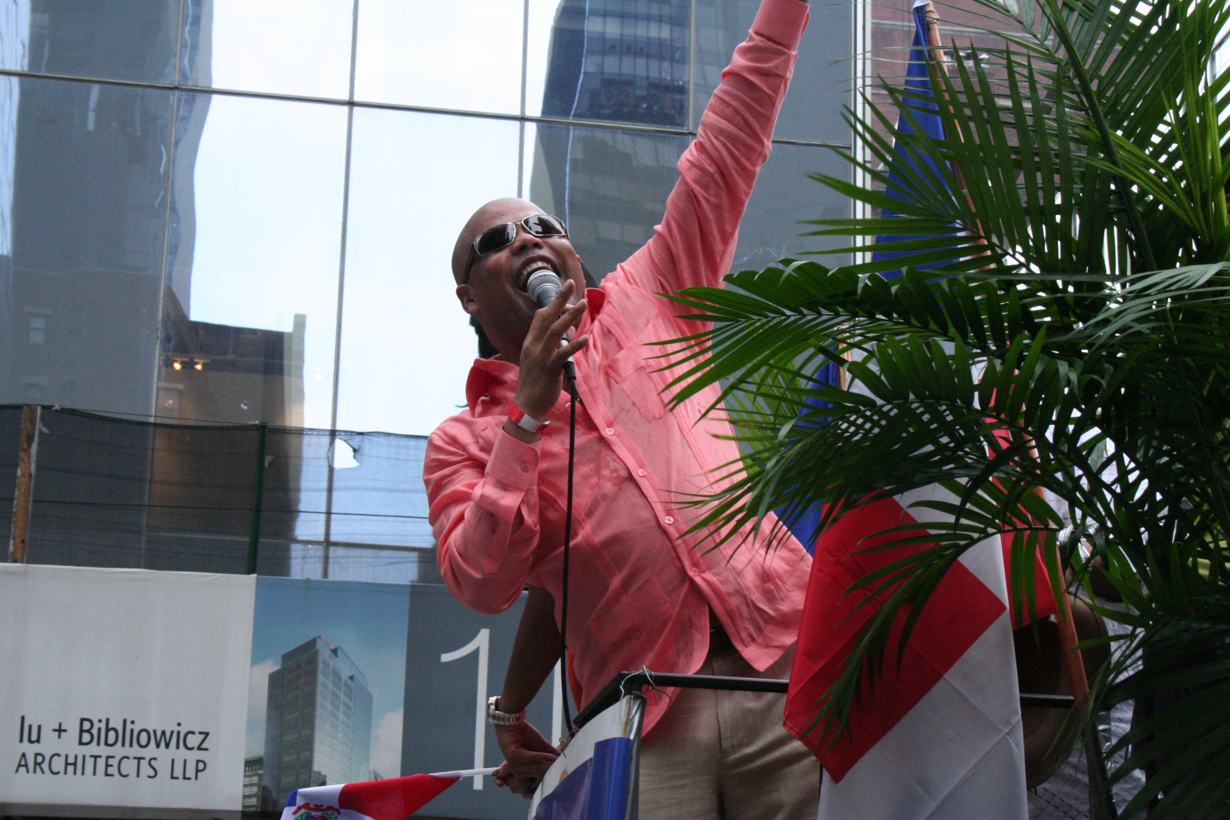 Dominican singer Rubby Pérez at the Dominican Parade NYC 2009.